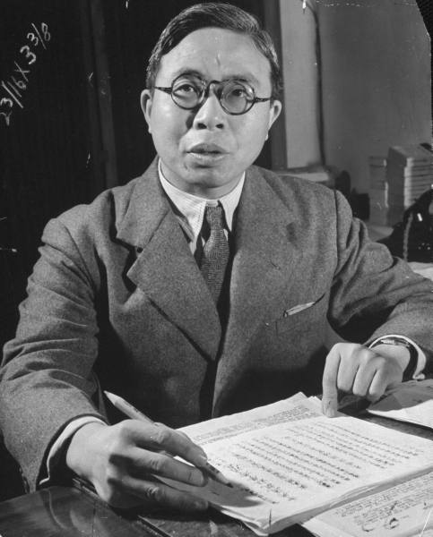 Wang Shijie,Central Propaganda Minister of Kuomintang,February 1941 in Chongqing